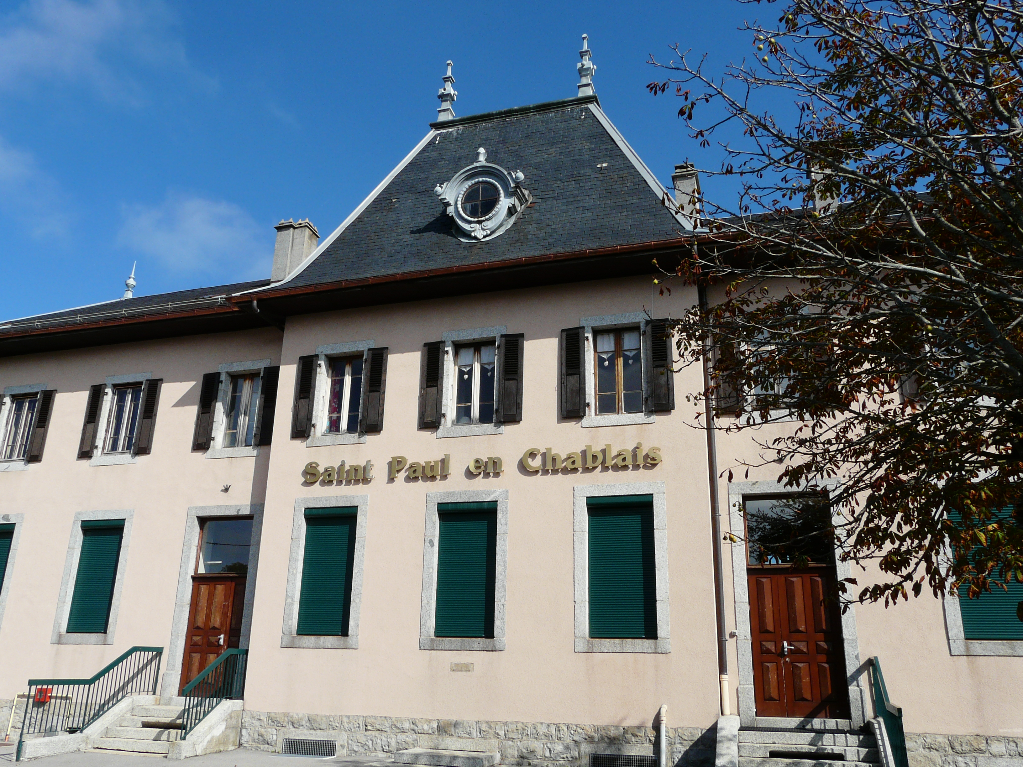 The school in Saint-Paul-en-Chabalis, housed in the former town hall